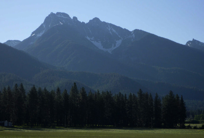 A view of Mount Calowahcan in July 2010.